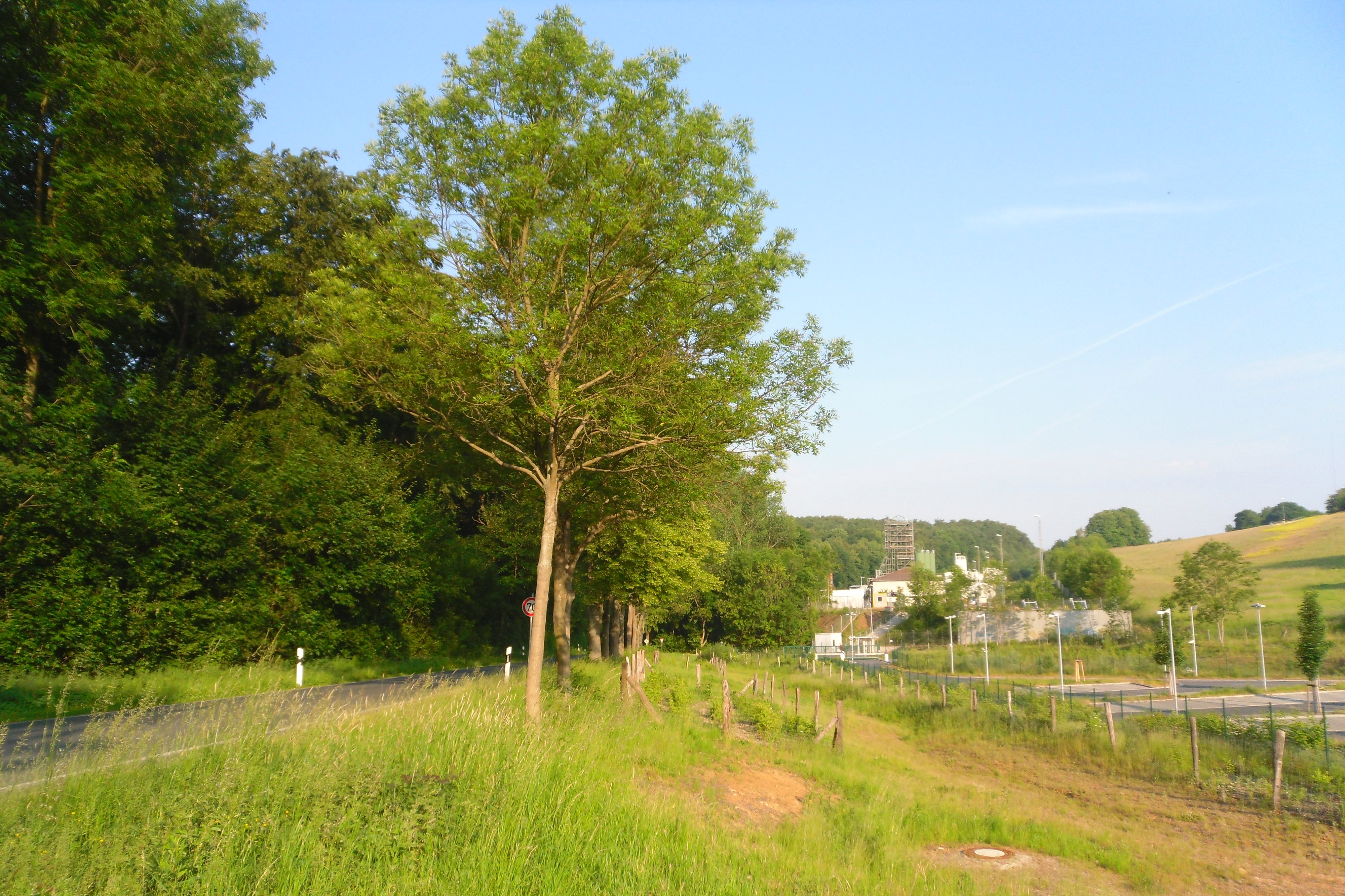 The final storage facility for nuclear waste in the "Asse" in Lower Saxony